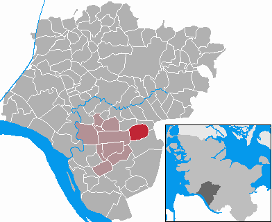 This map shows the area of the municipality Rethwisch in the Kreis (district) Steinburg, Schleswig-Holstein, Germany.